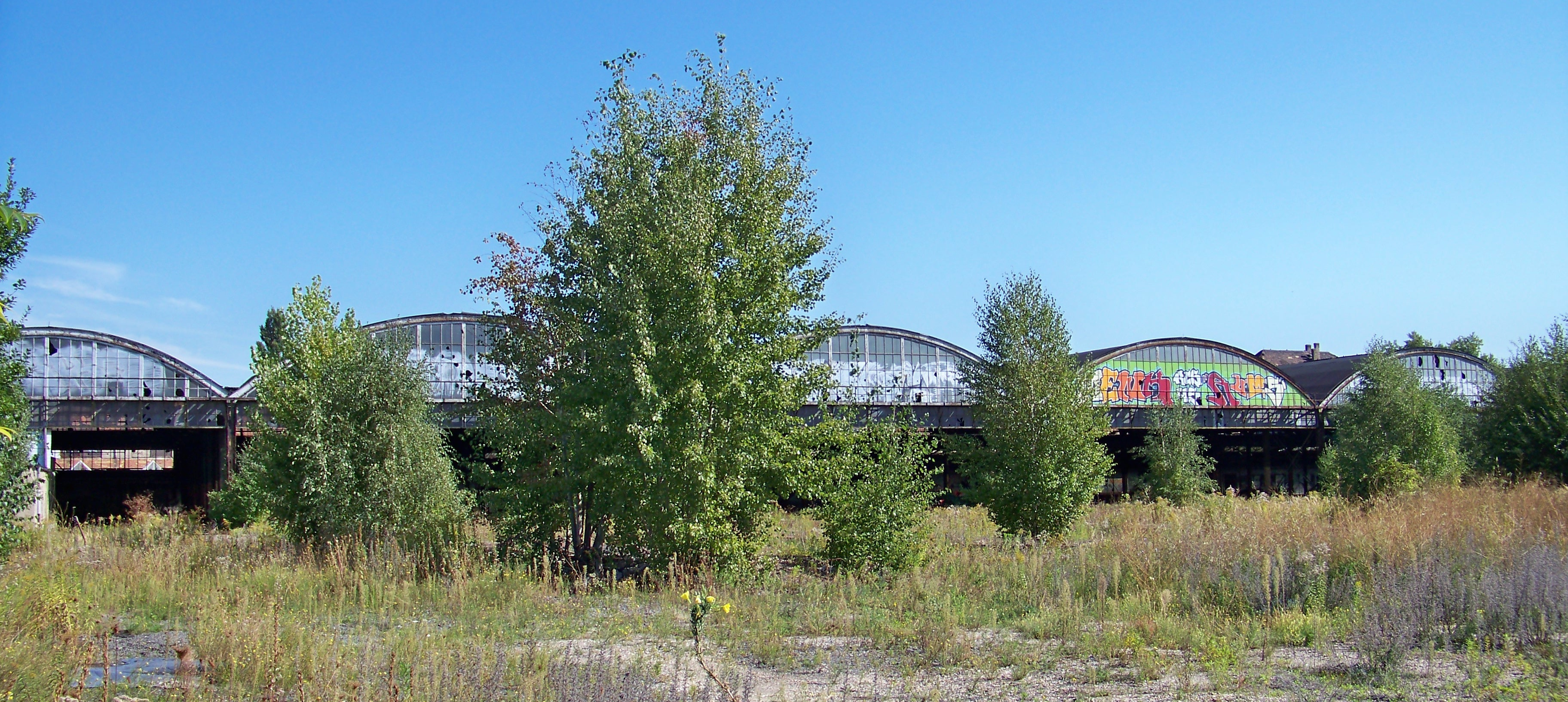 Former station for distribution of postal services in Leipzig